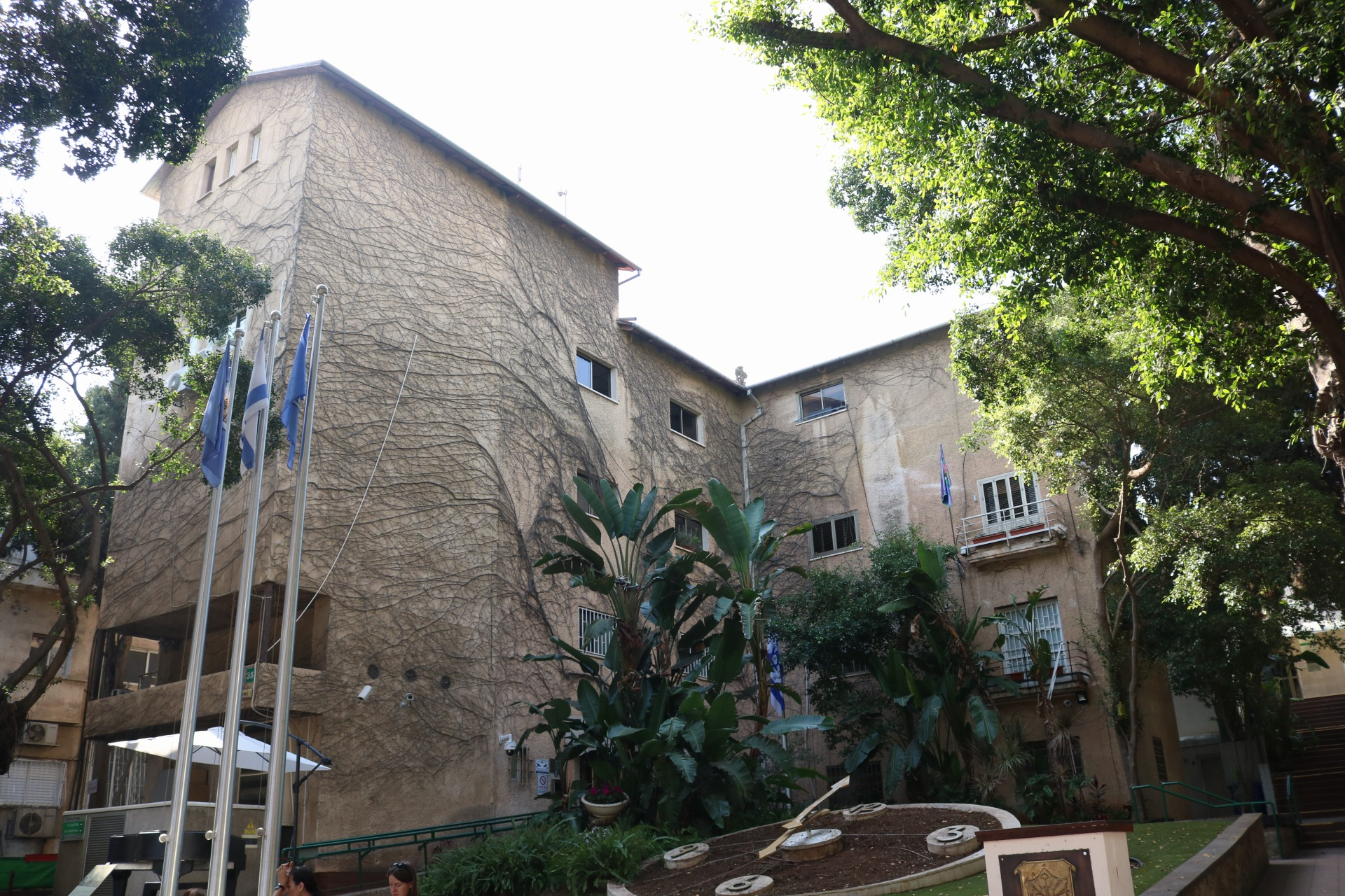 בית עיריית רמת גן, משכנה של עירית רמת גן